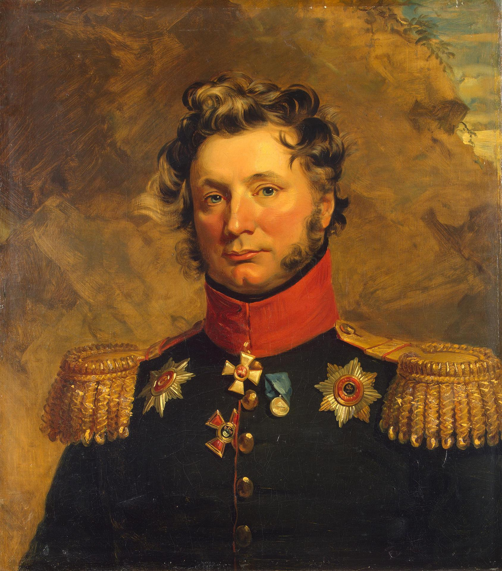 Portrait of Magnus Freiherr von der Pahlen (Матвей Иванович Пален, 1779-1863), russian Cavalry General.